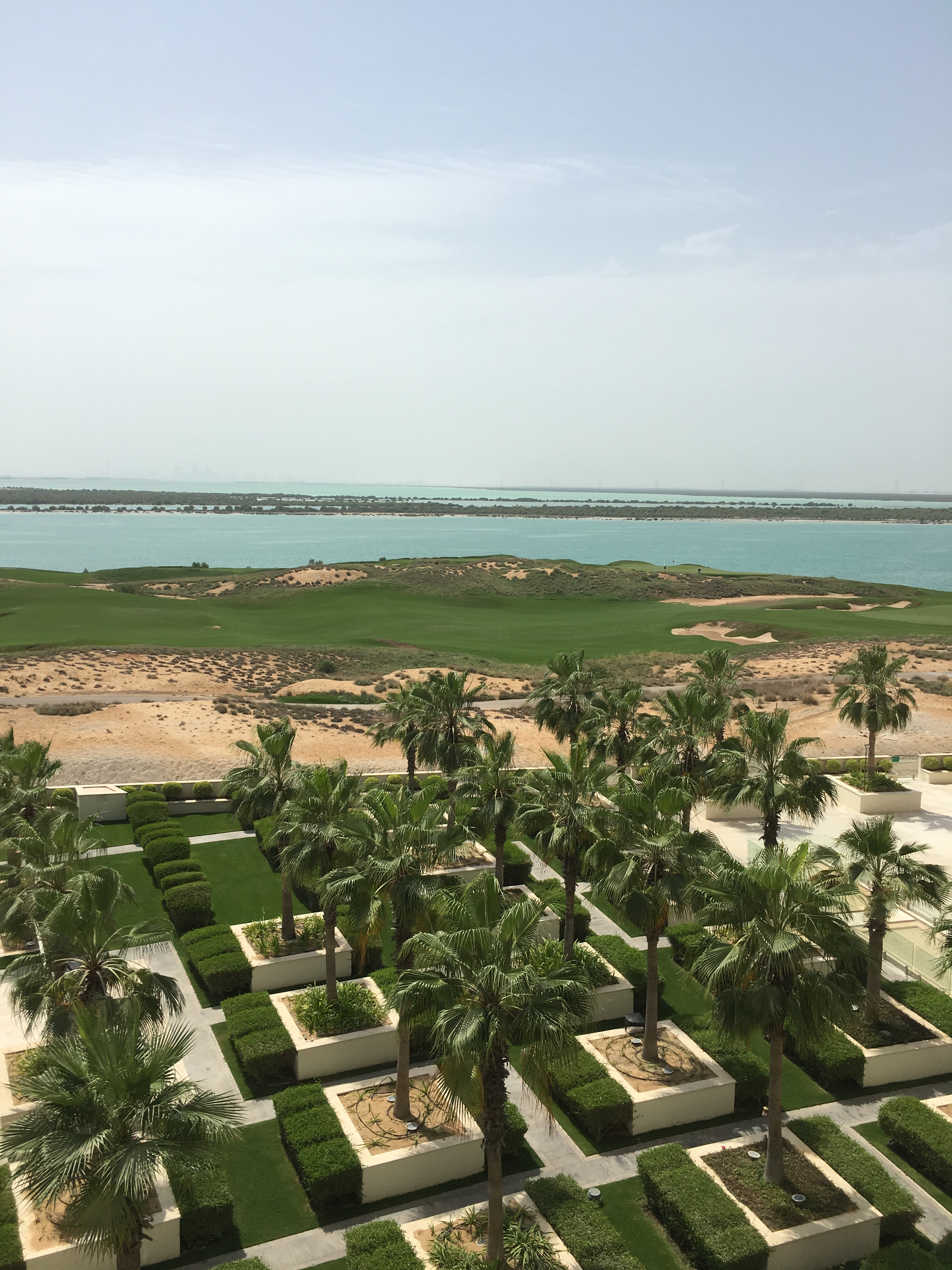 A view in Yas Island, Abu Dhabi, United Arab Emirates.